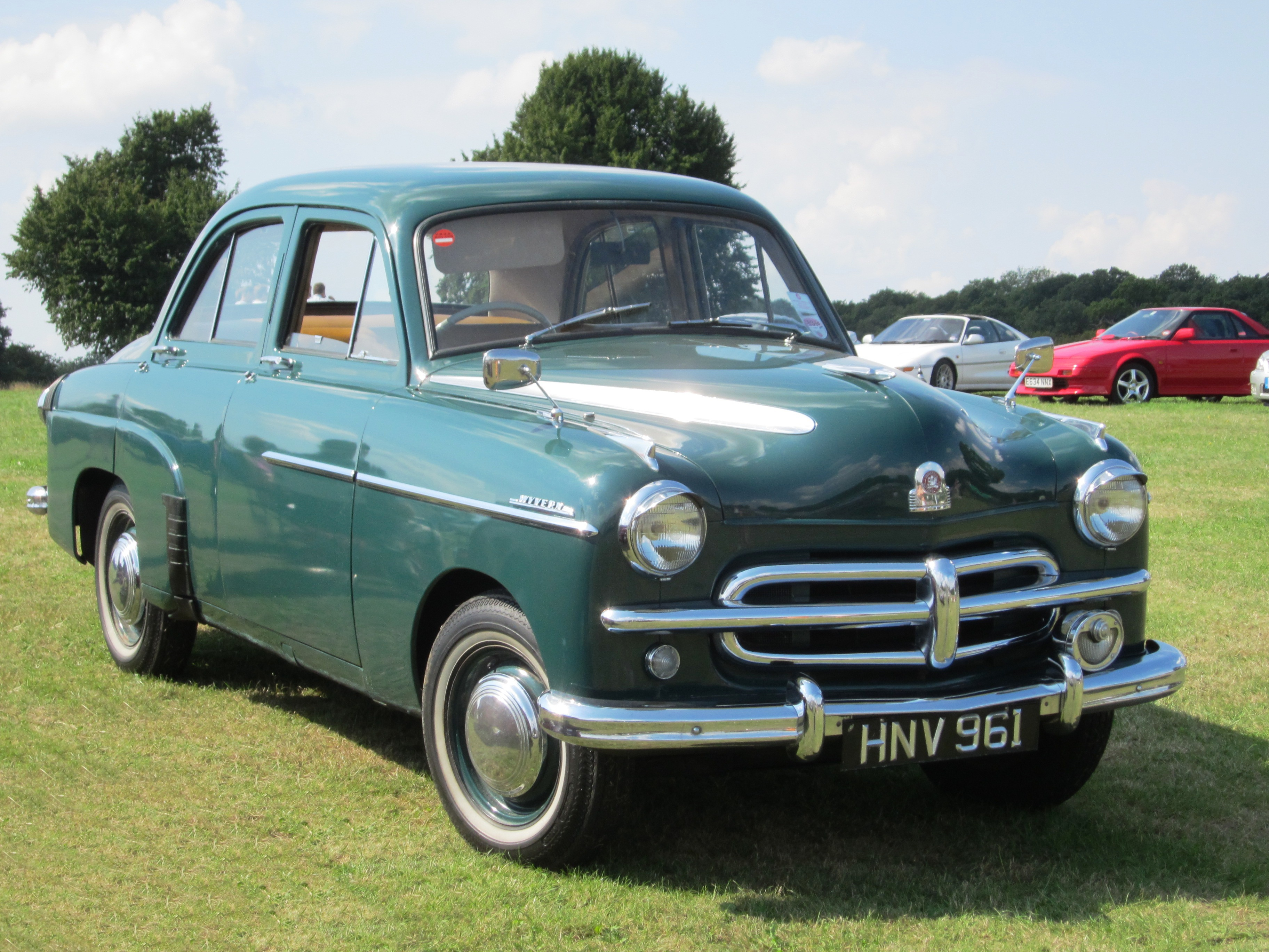 Vauxhall Wyvern (1952)